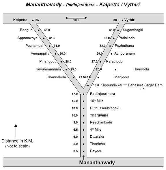 Route Map to pozhuthana Grama Panchayath